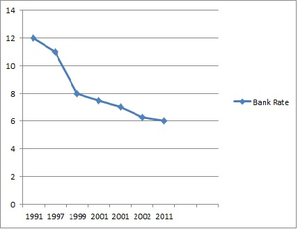 it shows the change in bank rate